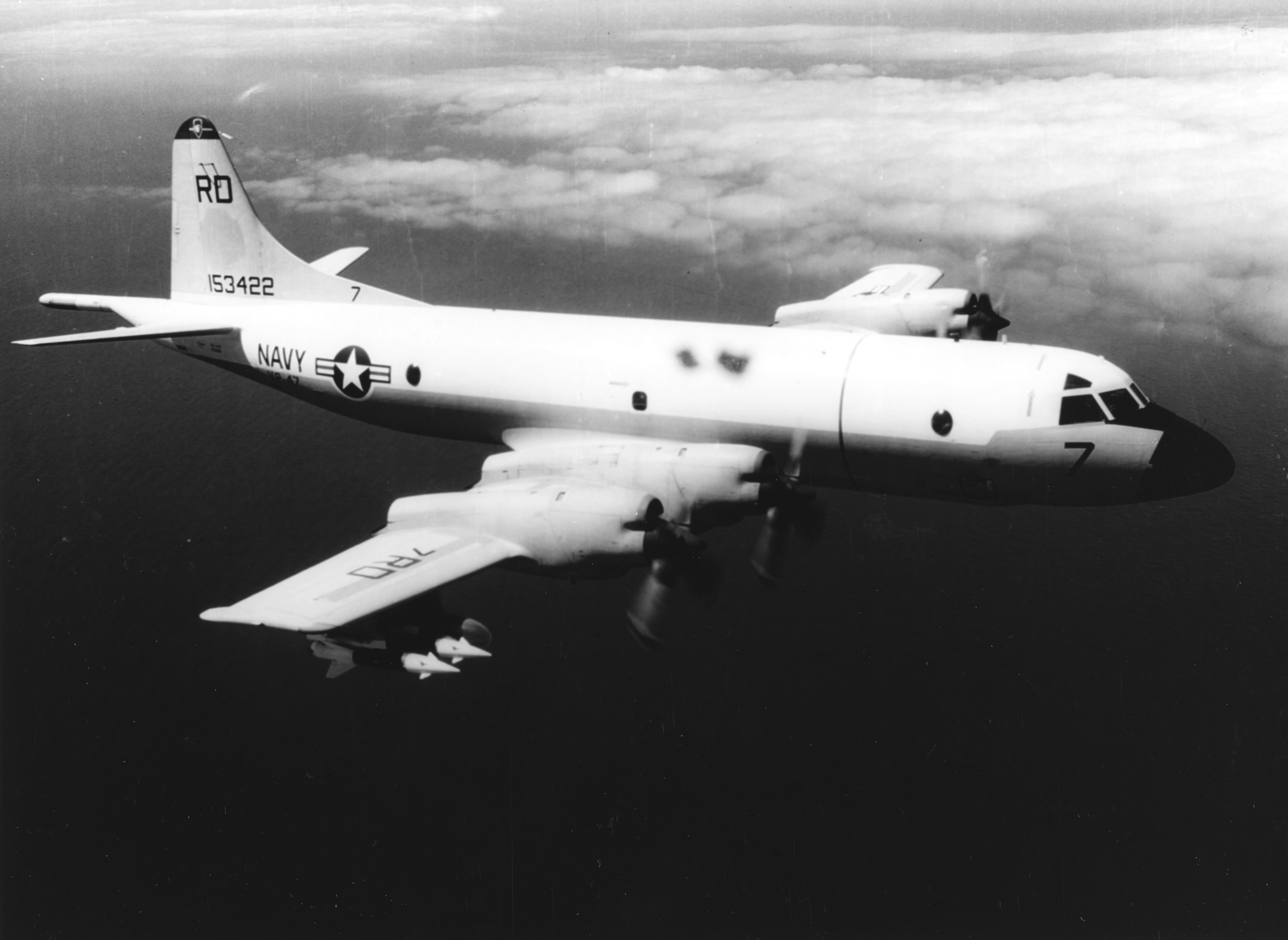 A U.S. Navy Lockheed P-3B-80-LO Orion (BuNo 153422) from Patrol Squadron 47 flies a routine patrol off Cam Rahn Bay, South Vietnam, on 4 September 1968. Note the AGM-12 Bullpup missiles under wing.